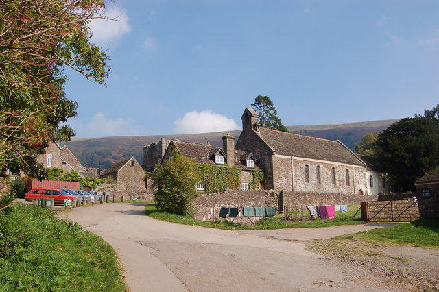 The Church of St David Llanthony Llanthony is a corruption of the Welsh 'Llan-ddewi-nant-honddu' meaning the Llan of St David on the River Honddu.